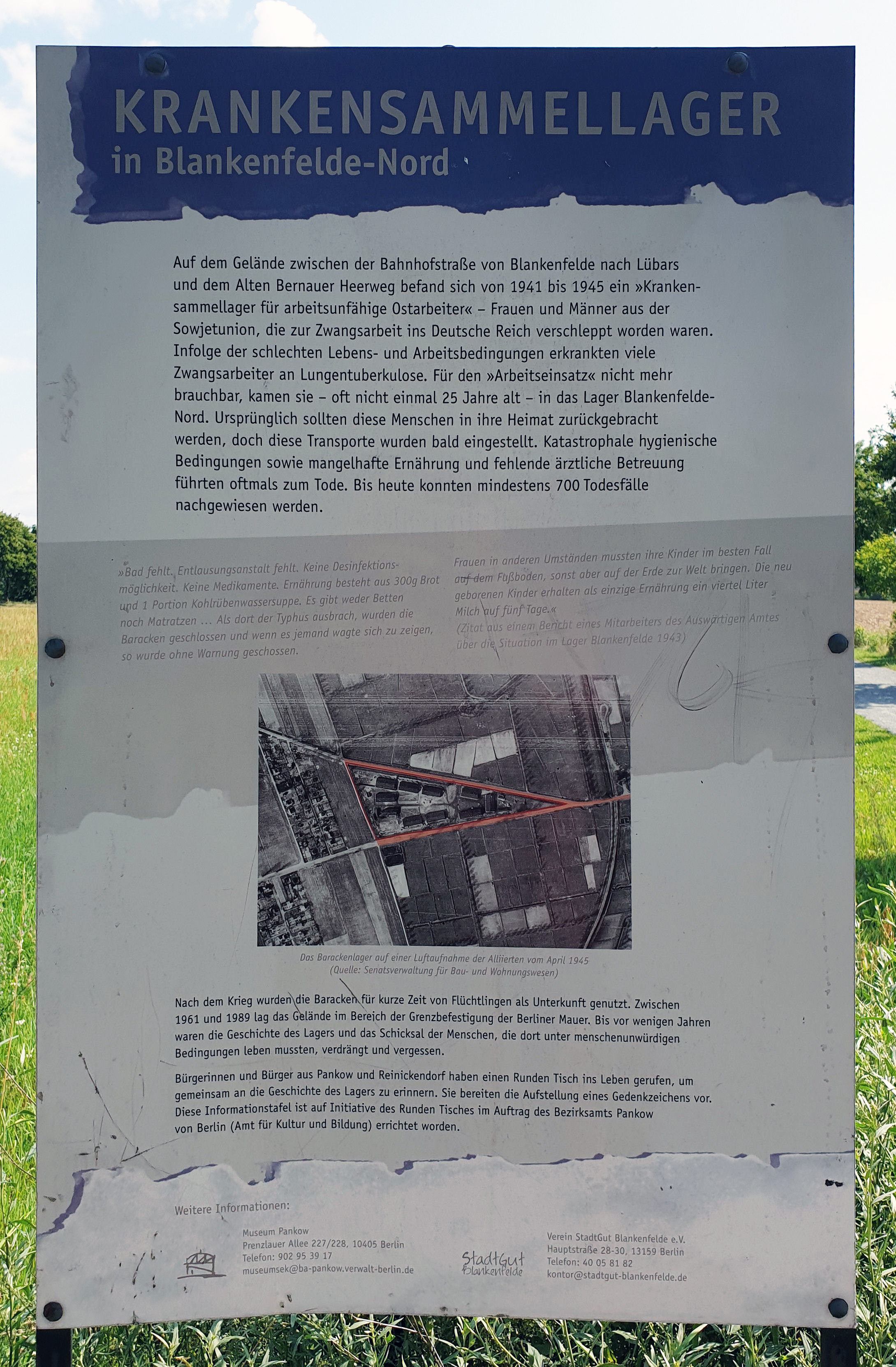 Memorial plaque, Krankensammellager Blankenfelde, Alter Bernauer Heerweg, Berlin-Lübars, Germany